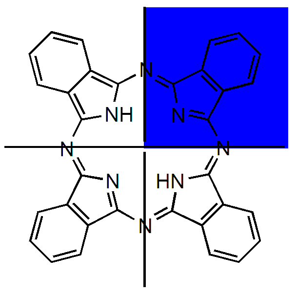 Shows the symmetry of phthalocyanine molecule